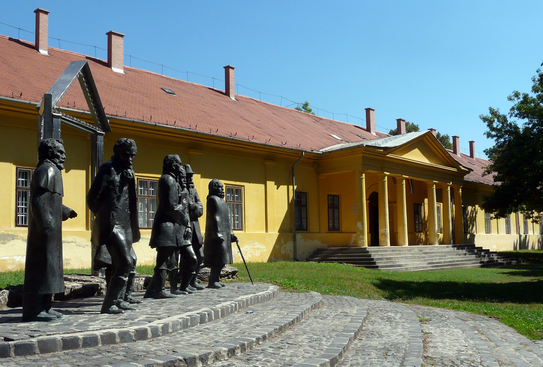 The building of the János Arany Museum in Nagykörös (Hungary)